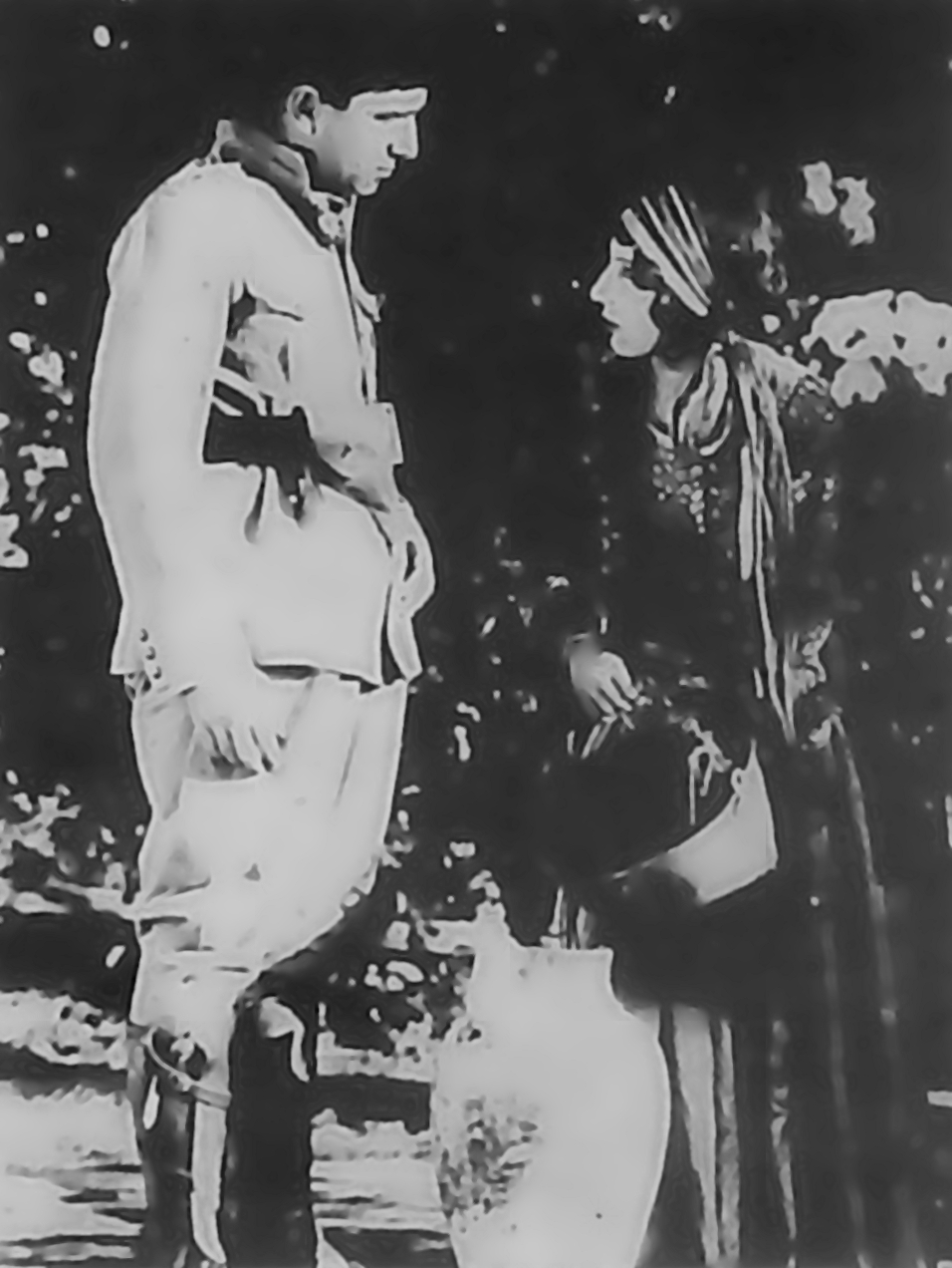 Sadiqeh Saminejad and Abdol Hossein Sepanta in Dokhtar Lor, an Iranian film from Ardeshir Irani, 1933 (screenshot).